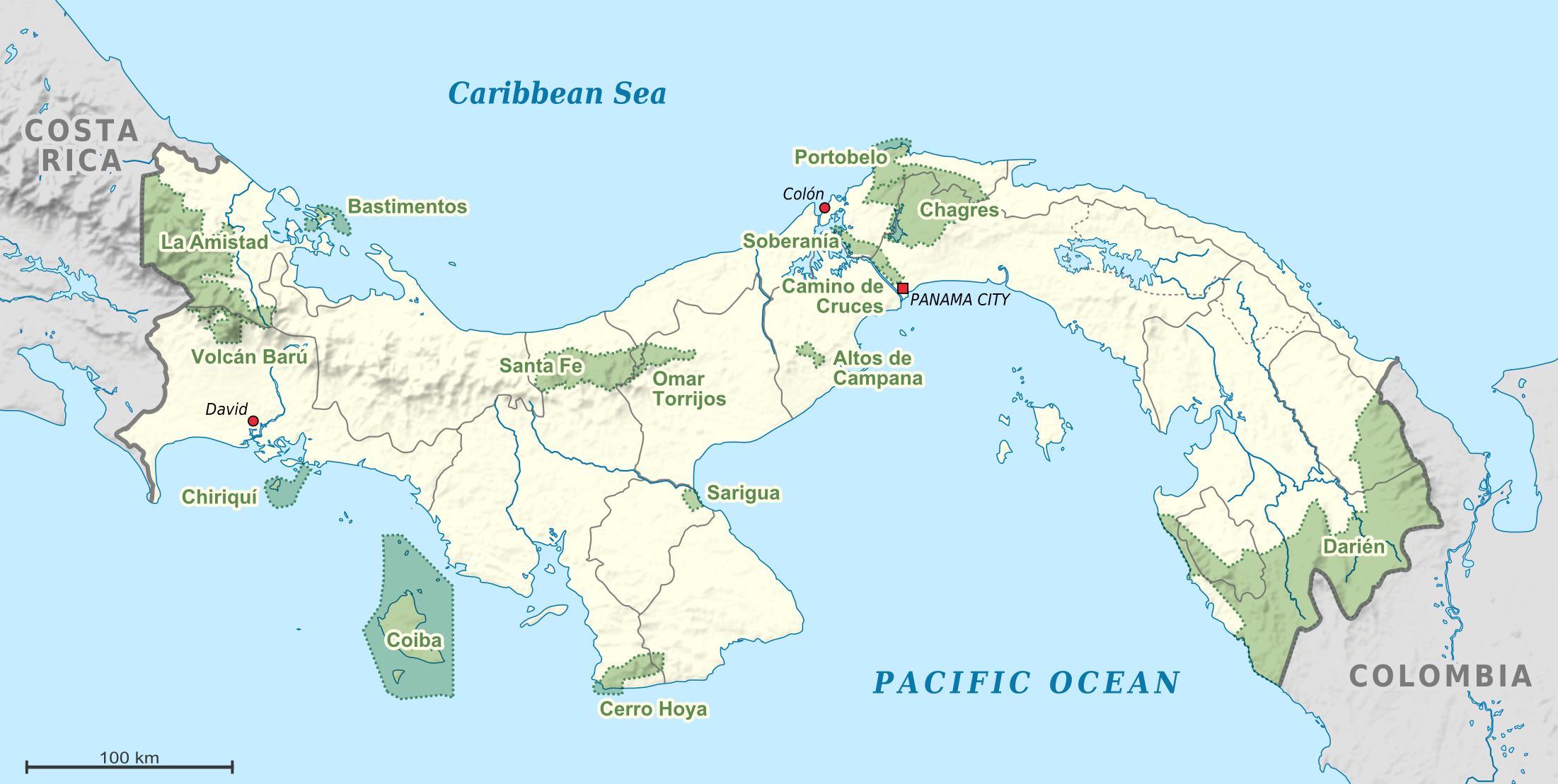 Map of the National Parks in Panama (Equirectangular projection)